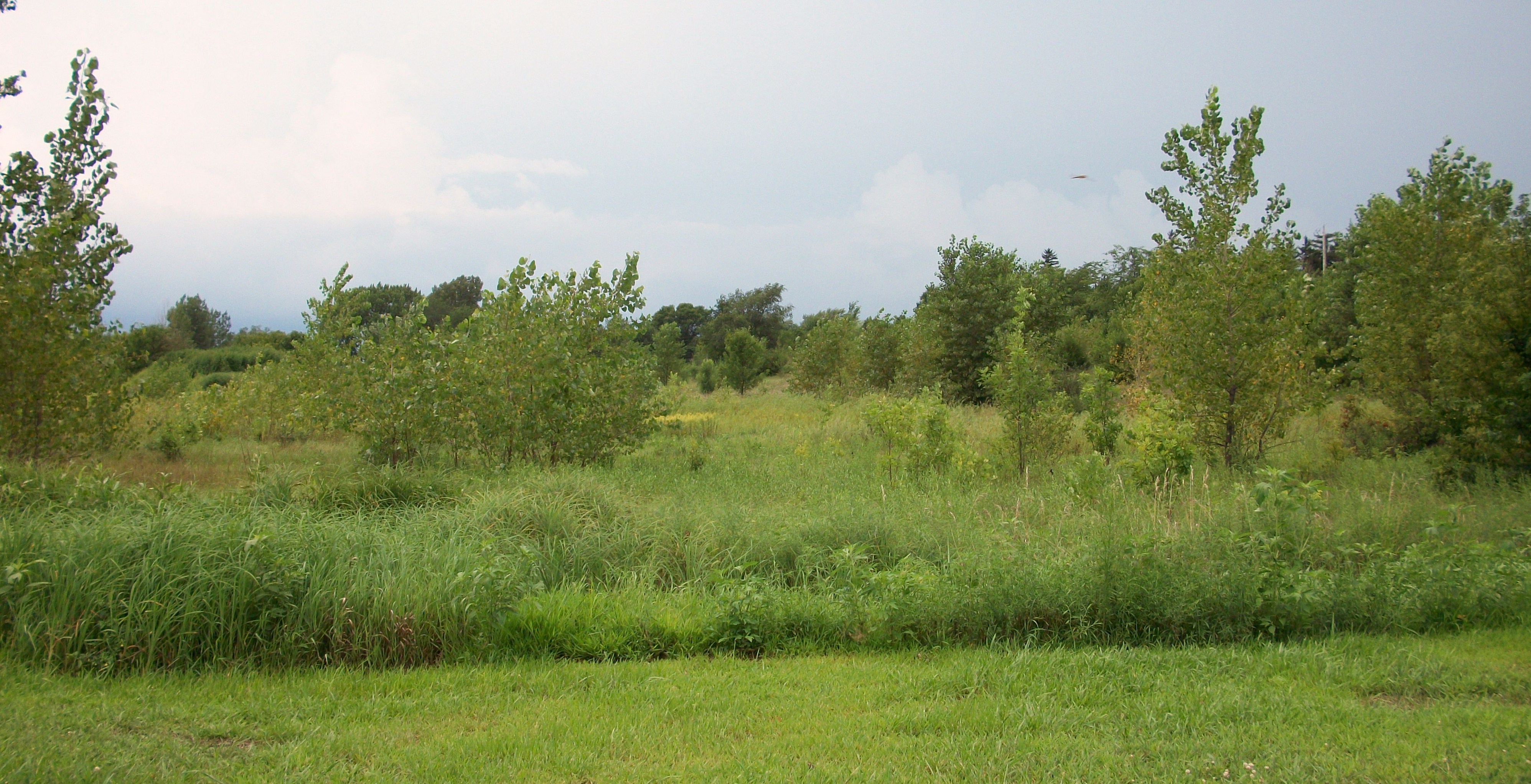 This is marshland in north Humboldt, Iowa. Historically, the land was formerly the bed for the Des Moines River, but the river has since moved. The marshland was viewed by Stephen H. Taft, who decided the land was beautiful and established the town in 1863.